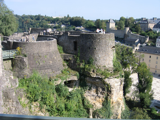 Photo of reconstructed (1963) castle on Bock Fiels